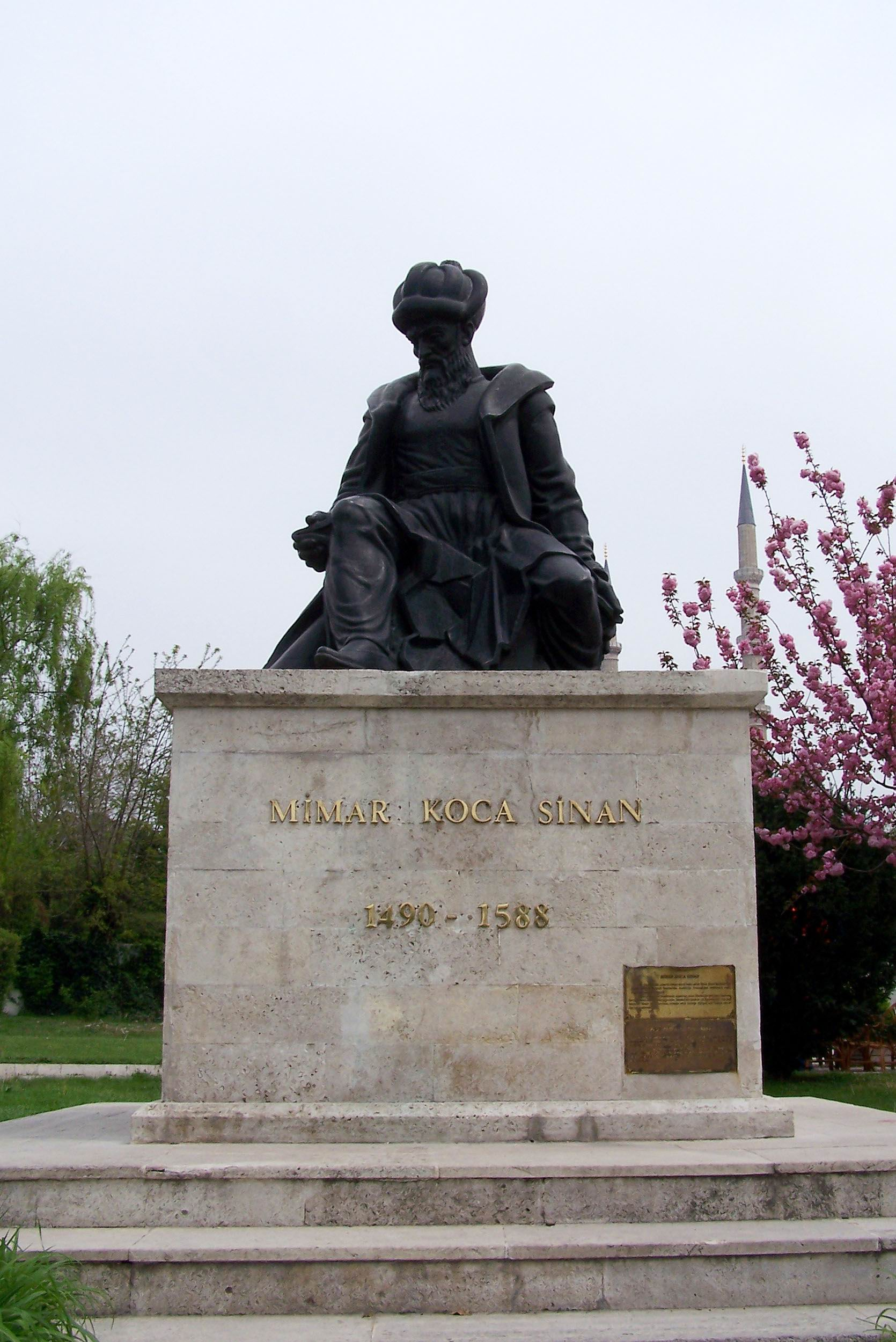 Statue of Mimar Sinan in Edirne, Turkey